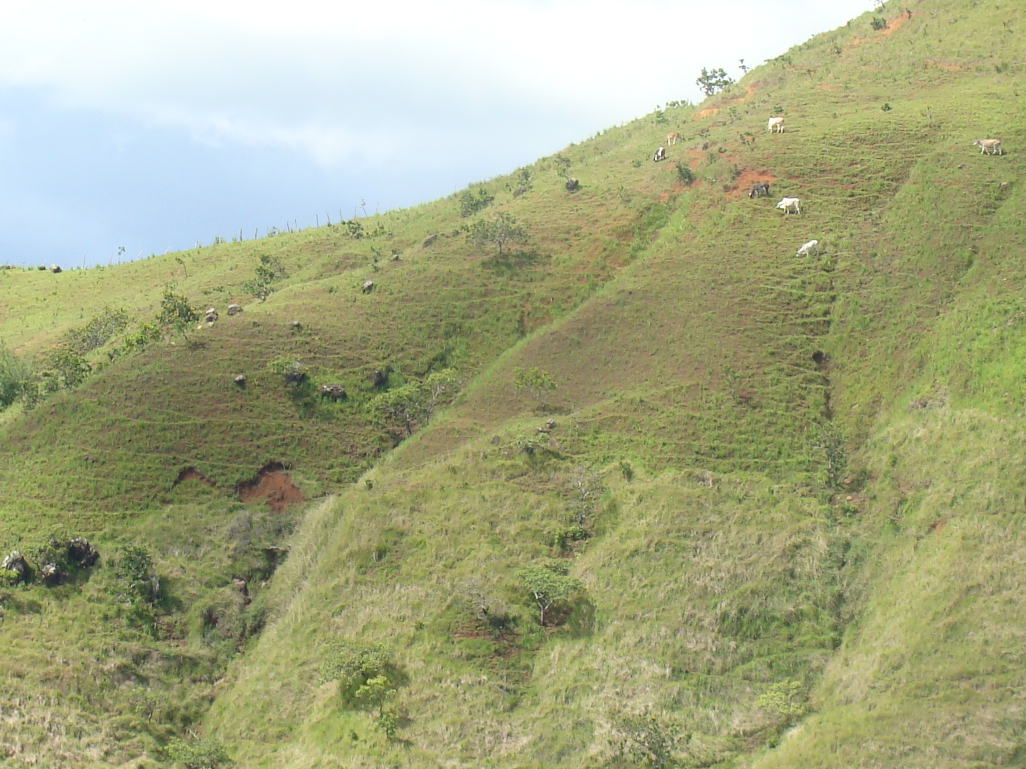 Downhill creep with cattle overgrazing. Southern slopes on the Serranía del Interior (Venezuela), 25 km west from San Juan de los Morros.